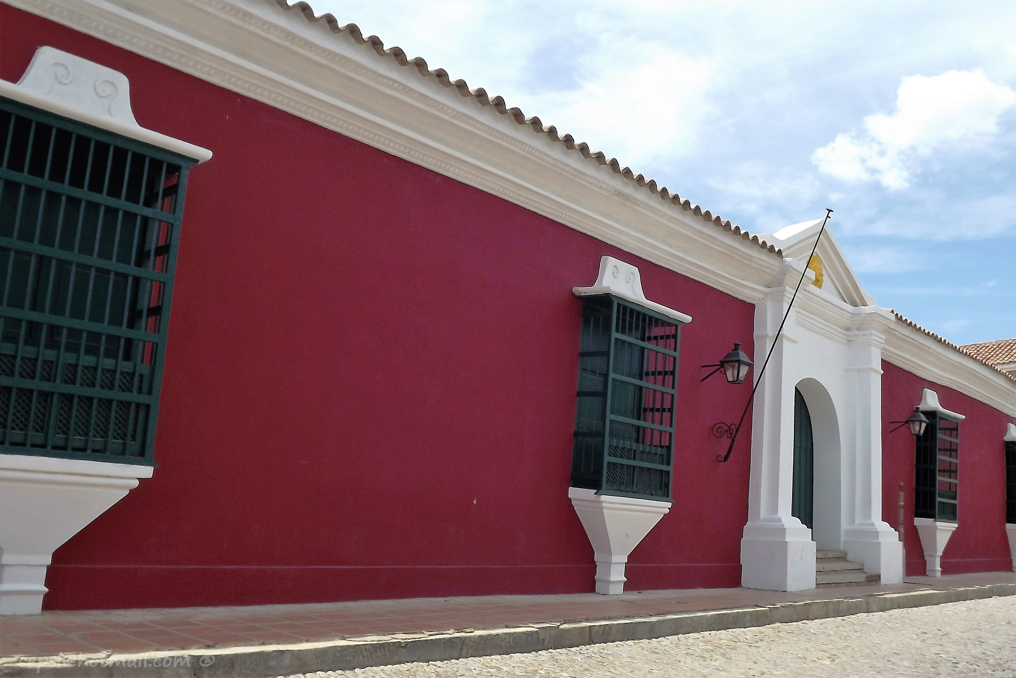 Located at the corner of streets Zamora with Federation diagonal to the Church of San Clemente in the historic center of Coro. This is one of the oldest colonial houses in the city of Coro, being built in the 17th century Its name comes from the sun located on its main facade above the door. This residence belonged to José Garcés, who built the House of the Iron Windows.